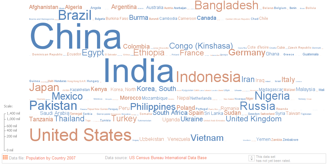 Data cloud showing world population by country, 2007. The color of each word separates the countries visually, while the size of the font gives an approximation of the population.